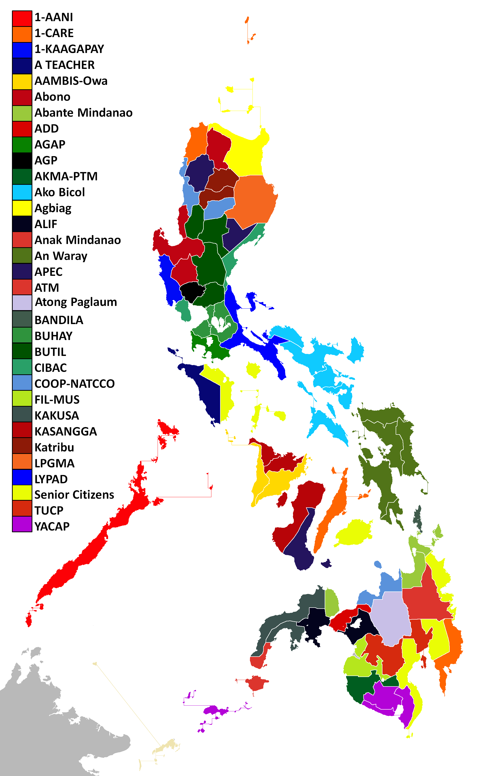 Results of the Philippine House of Representatives party-list election: Parties that had at least of plurality of the vote in that province is shaded.